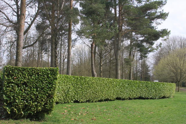 Tree cathedral showing outer "wall".. Listed in the Reader's Digest book "The most amazing places to visit in Britain" this view shows the laurel hedge forming the outer "wall" of the cathedral. See 16755 for a different view.